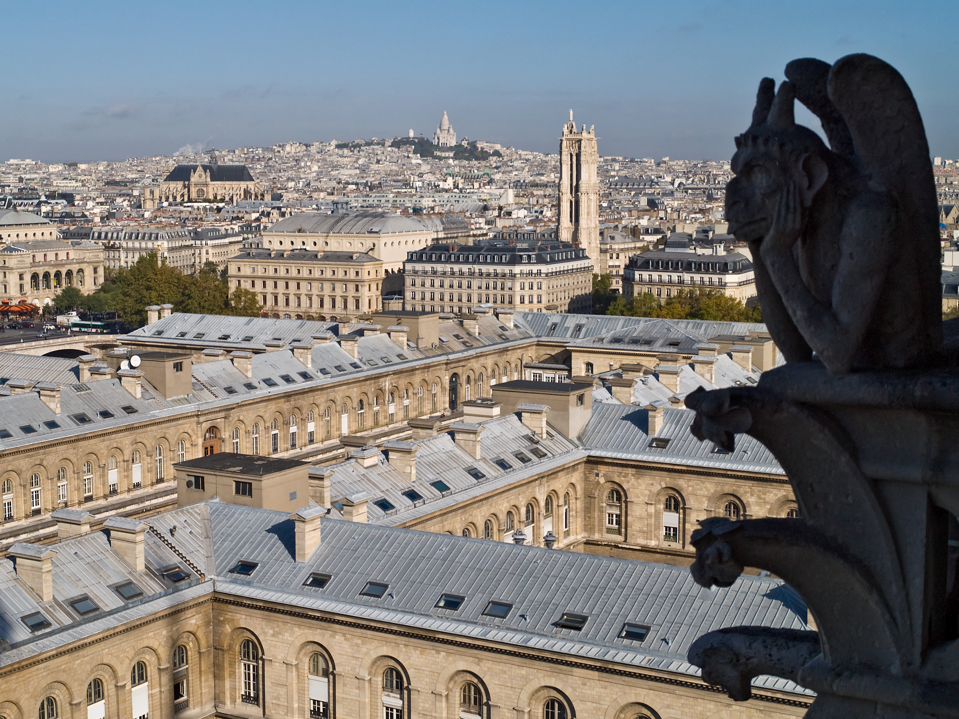 Paris seen from Notre-Dame de Paris